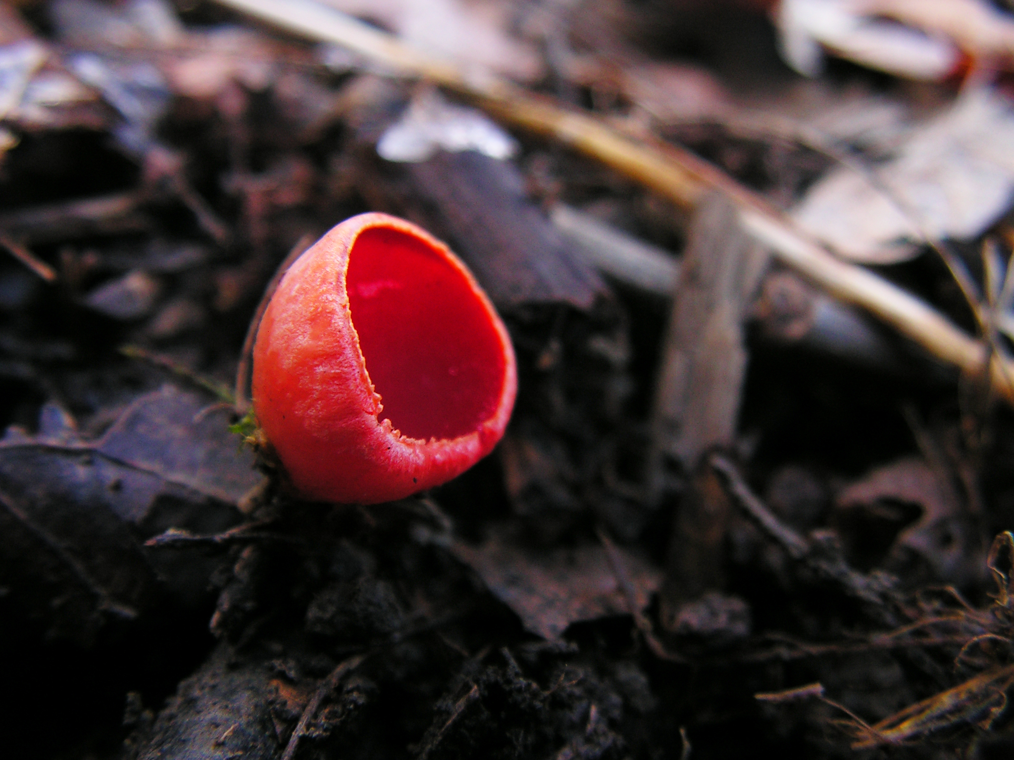 Scarlet cup (Sarcoscypha coccinea), Salles-la-Source (Aveyron, France).